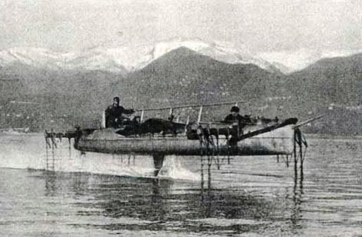 Forlanini Idroplano (Hydrofoil) on Lago Maggiore, 1910.